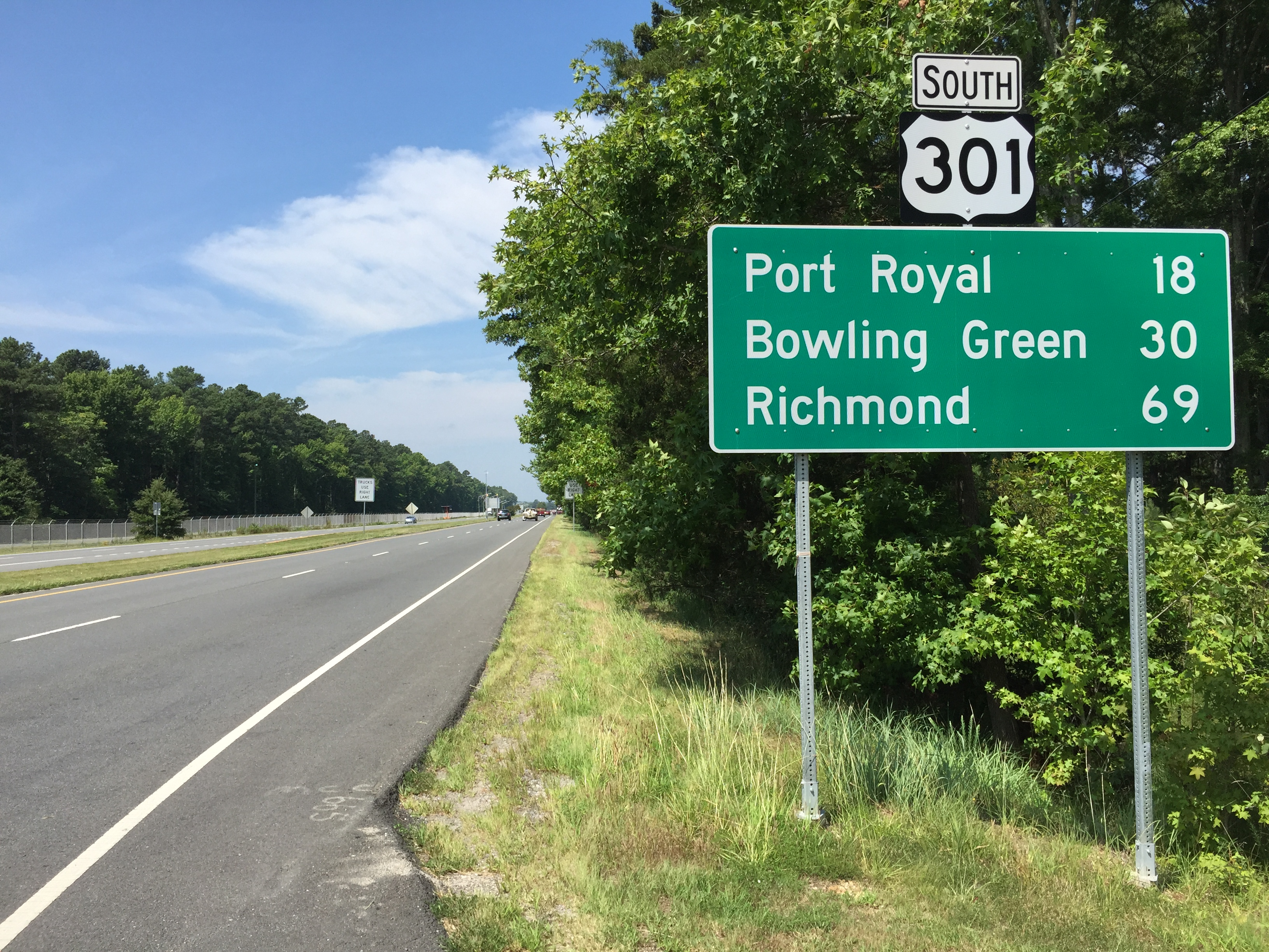 View south along U.S. Route 301 (James Madison Parkway) just after crossing the Governor Harry W. Nice Bridge in northern King George County, Virginia